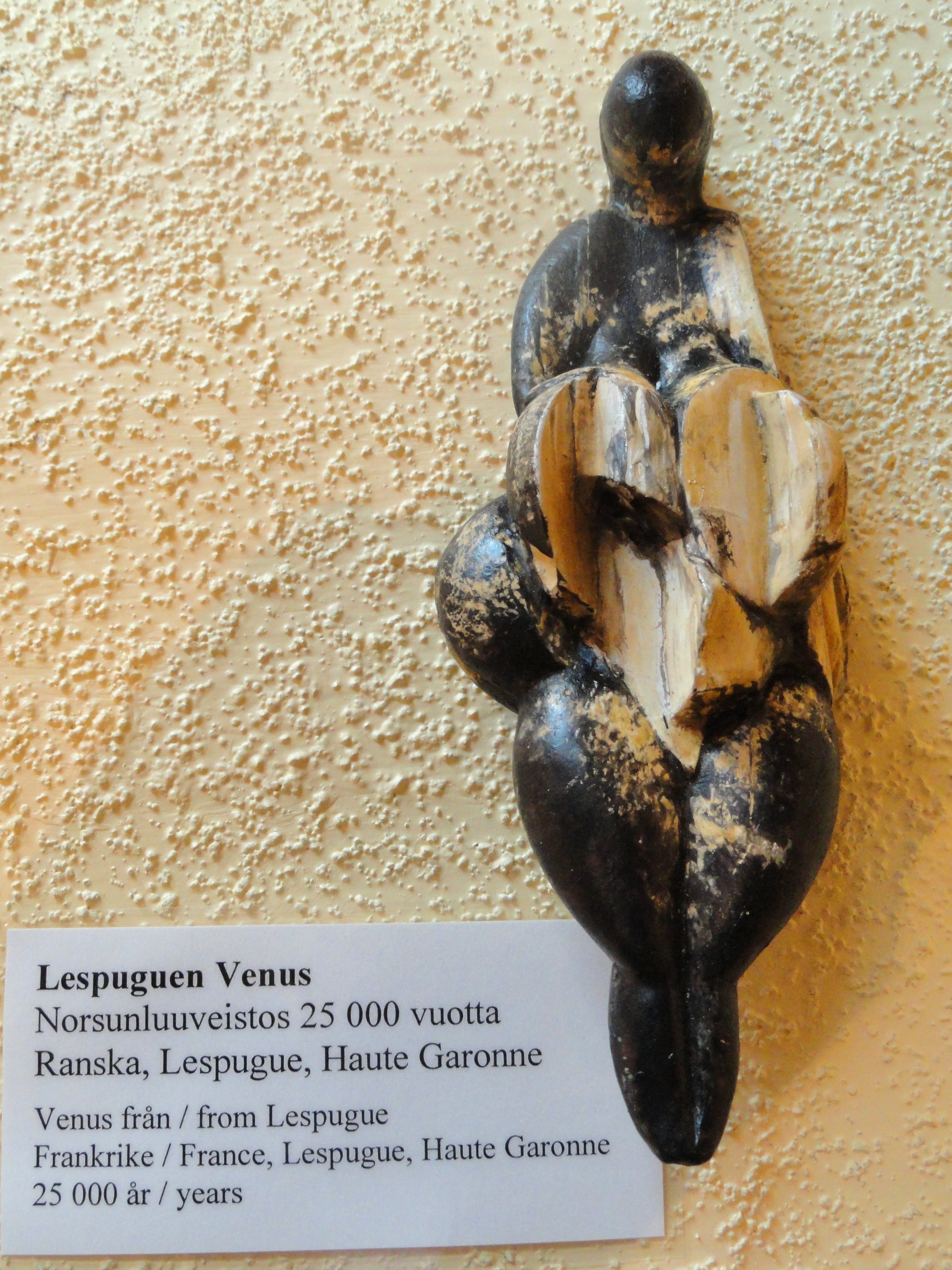 Exhibit in the Arppeanum, Helsinki, Finland.